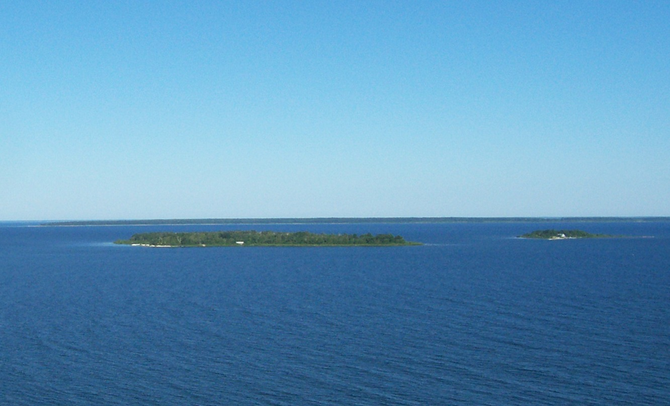 Strawberry Islands in Door County, Wisconsin located within the Bay of Green Bay of Lake Michigan.